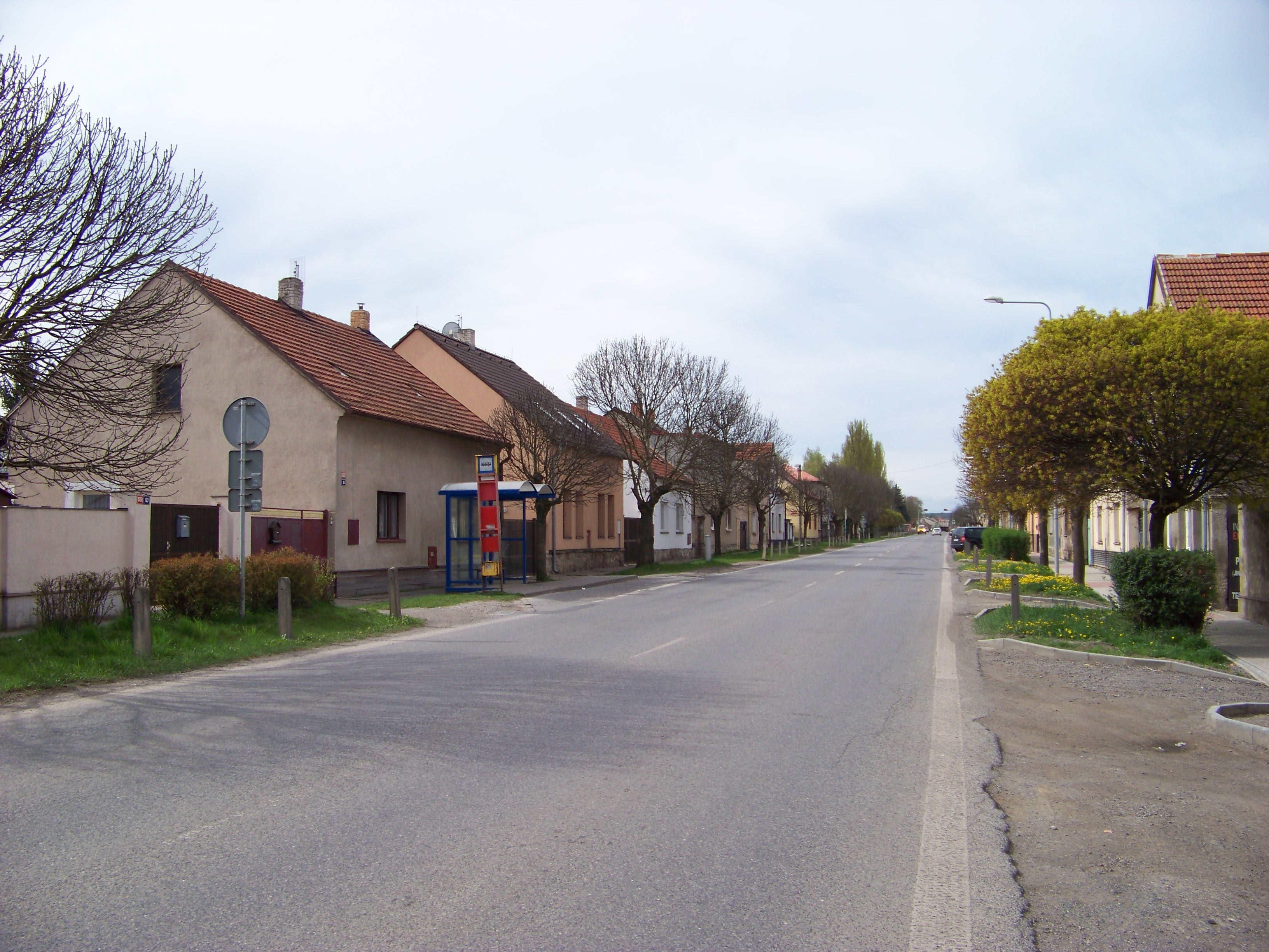 Rudná-Hořelice, Prague-West District, Central Bohemian Region, Czech Republic. Masarykova street, from Čelakovského street. - Google Maps - Google Earth